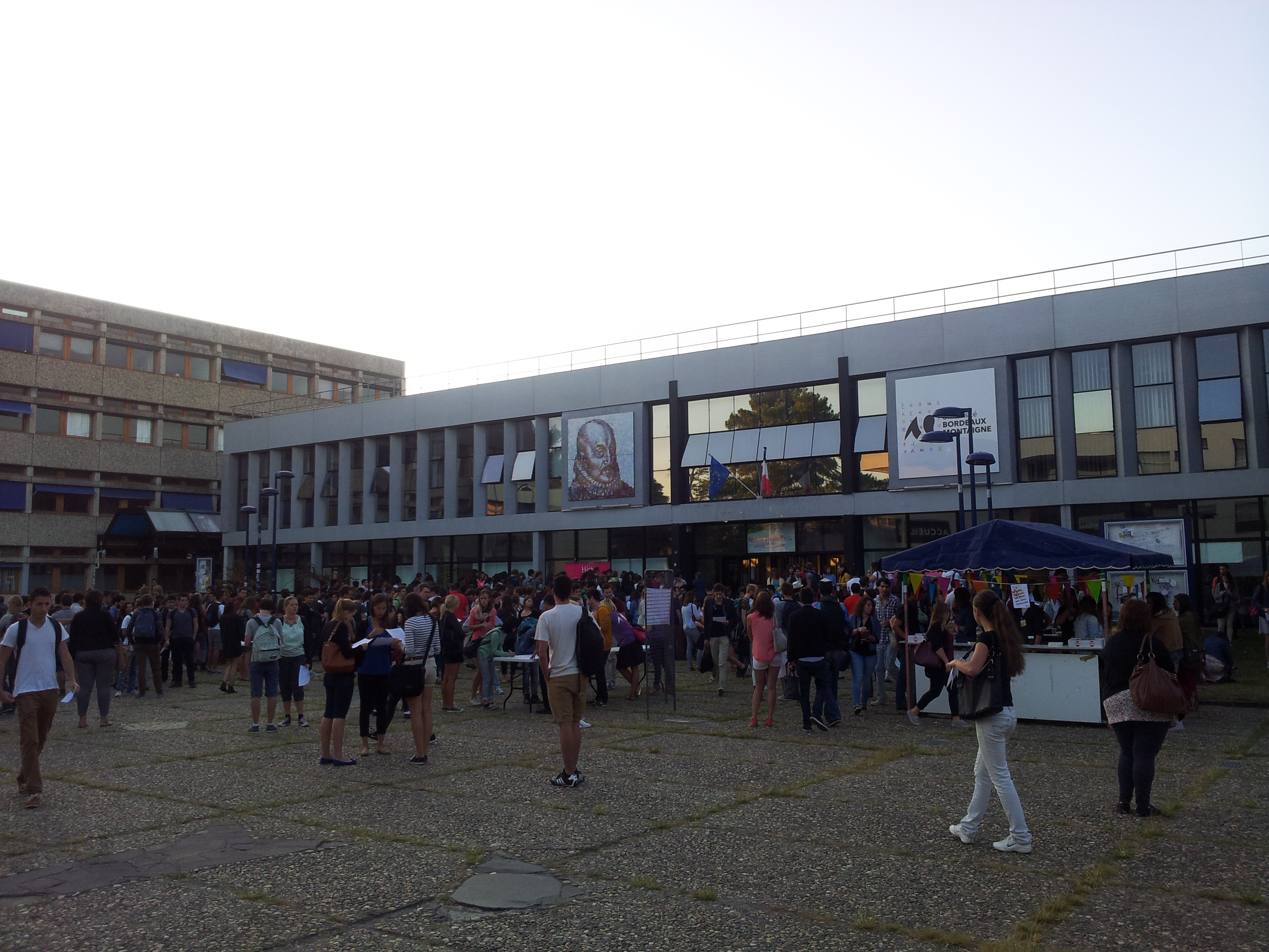 Michel de Montaigne University Bordeaux 3 - Administration Building. Orientation Day